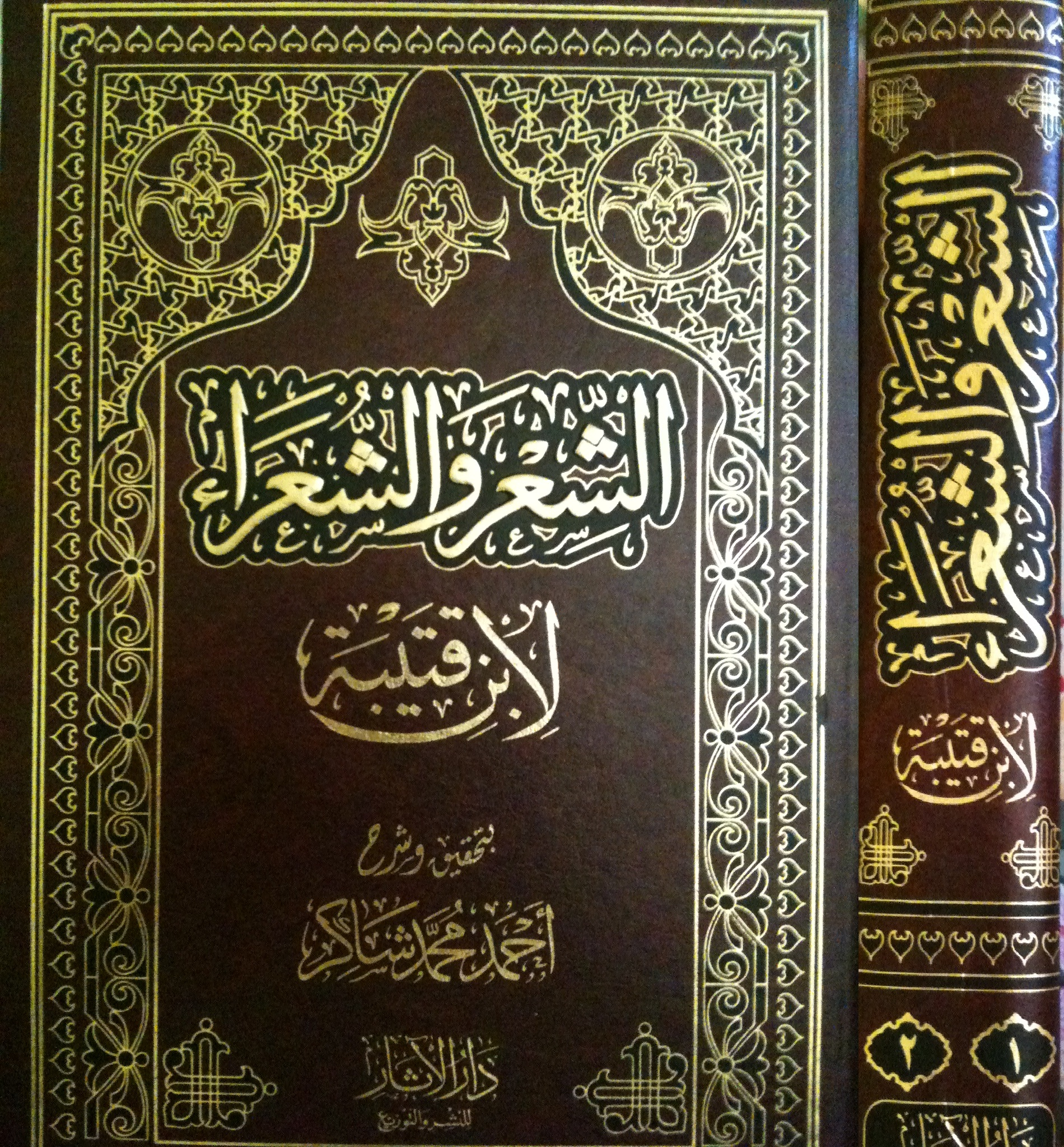 غلاف كتاب الشعر و الشعراء لابن قتيبة